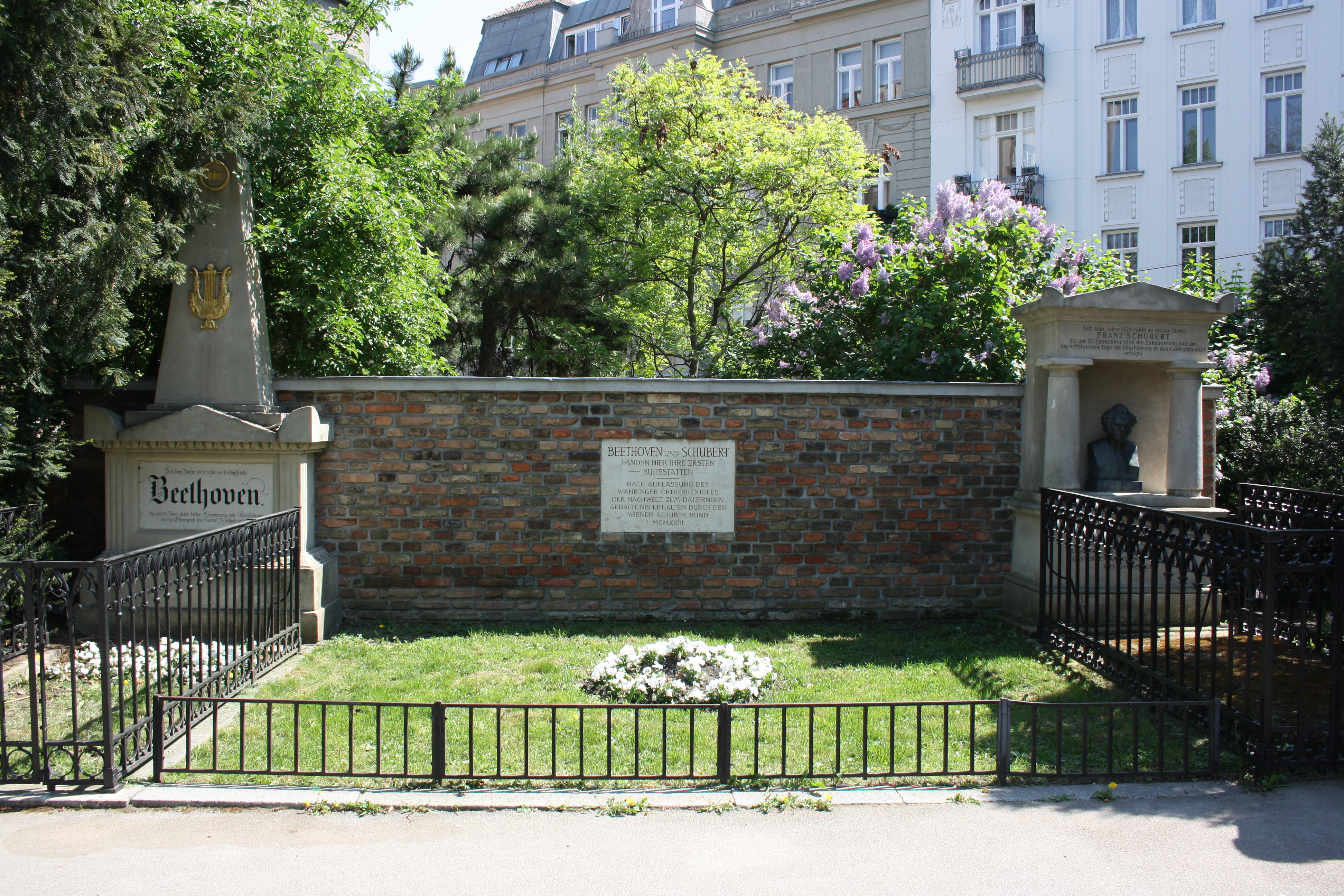 Former graves of Ludwig van Beethoven and Franz Schubert. Schubertpark, 18th district of Vienna.